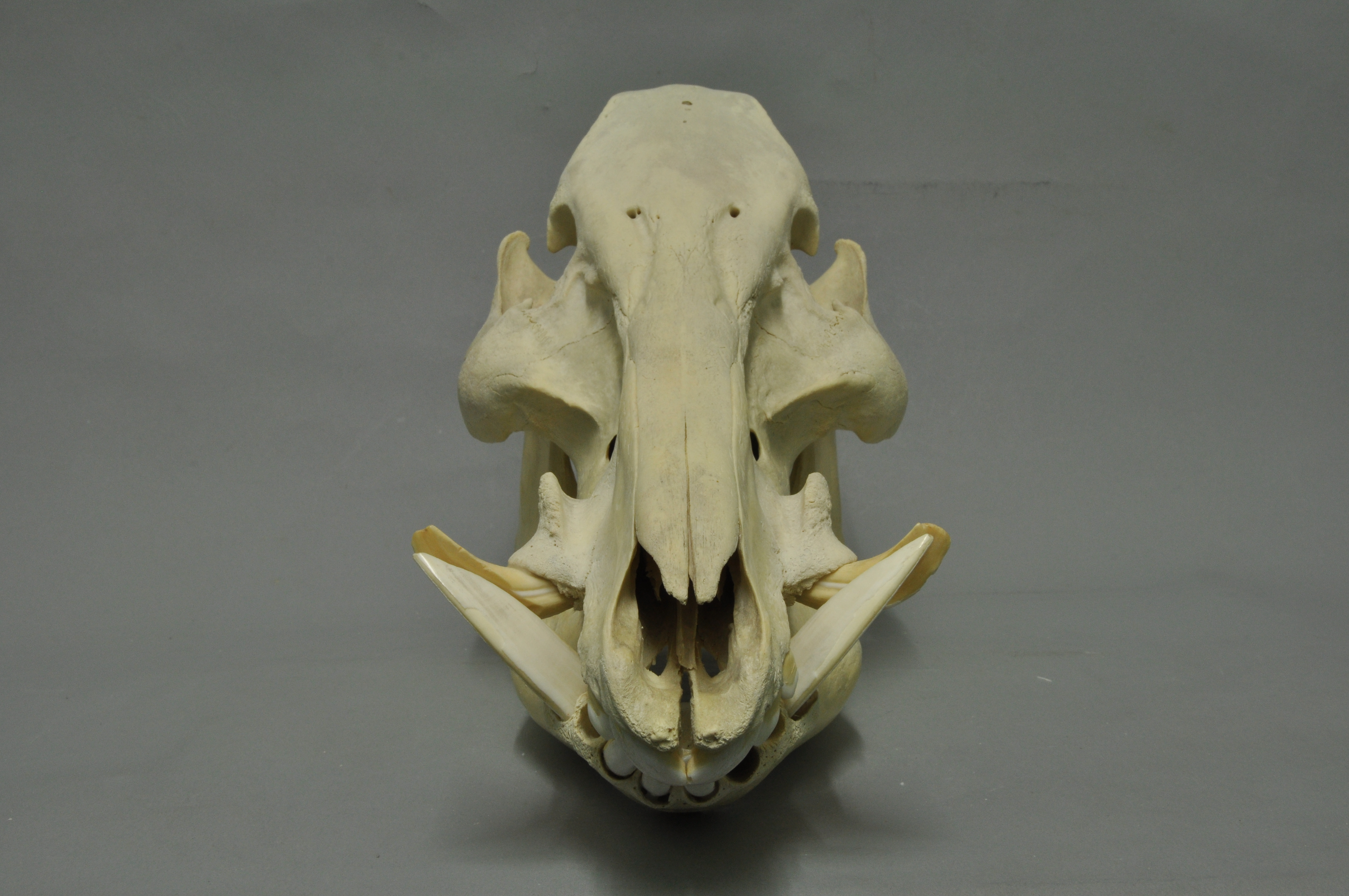 Javan warty pigSus verrucosus , skull, Coll. Museum Wiesbaden